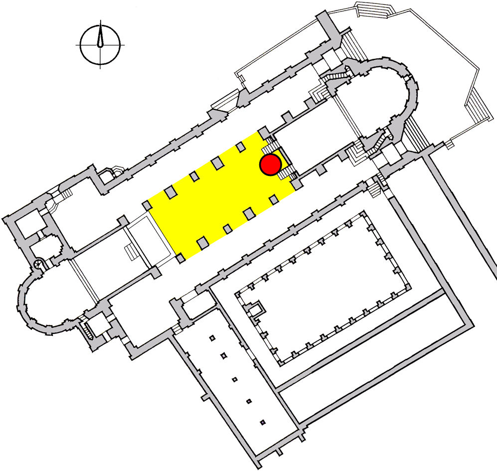 cathedral of Bamberg, Germany